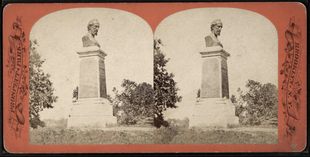 Bust of John Howard Payne, by Henry Baerer, which was located on the crest of Sullivan Hill, Prospect Park, Brooklyn, from 1873 to 1974. Presented by the Faust Club of Brooklyn, it was toppled from its pedestal by vandals a century later. It was recovered and languished in New York City Parks Department storage for over 25 years until it was sent to Home Sweet Home, a museum in East Hampton, NY that is dedicated to John Howard Payne and his time. The pedestal in Prospect Park was demolished around 2000. Henry Baerer, the sculptor, also created the memorial to Civil War General G. K. Warren, nearby in Grand Army Plaza, and busts of Ludwig von Beethoven in Central and Prospect Parks. (Dedication: Brooklyn Daily Eagle, September 27, 1873, Henry J. Baerer: New York Times, December 09, 1908; Theft of Bust: New York Times, January 26, 1974. Disposition at Home Sweet Home Museum: 'The Home Is Sweet But It Wasn't His'; Julia C. Mead, New York Times, January 16, 2005)